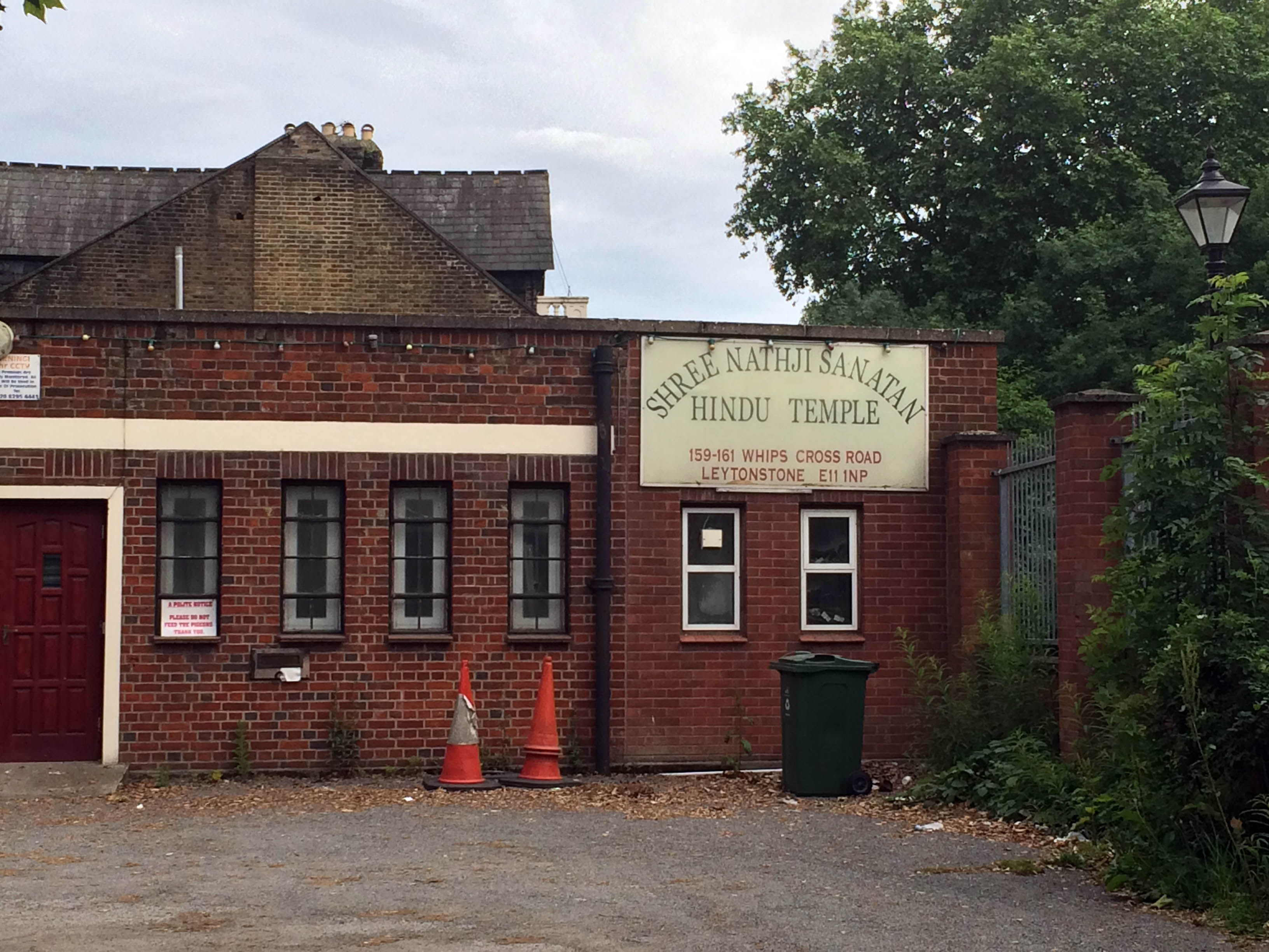 Hindu Temple on Whipps Cross Road in Leytonstone, London Shree Nathji Sanatan